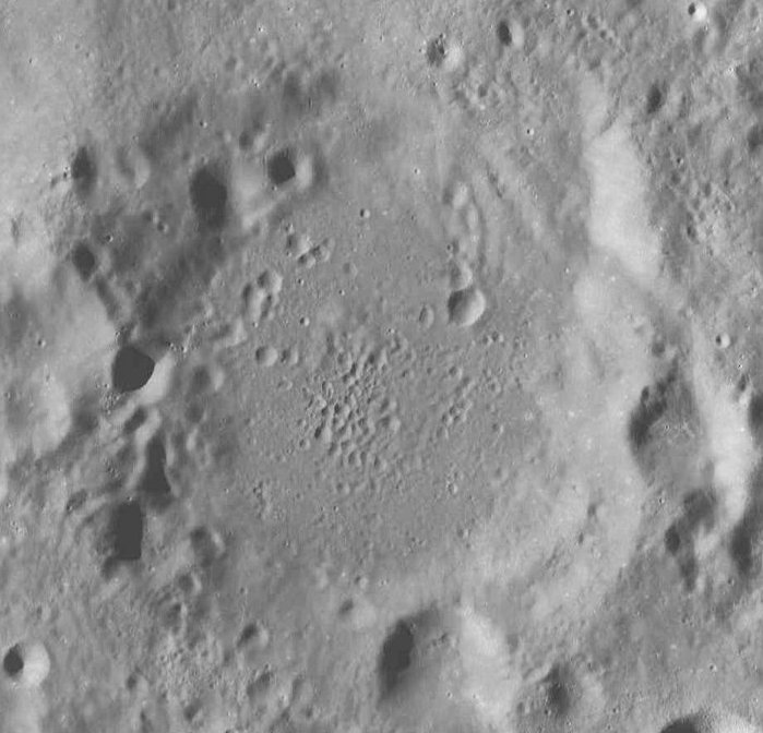 Crater Reichenbach (detail of LRO - WAC global moon mosaic; Mercator projection)